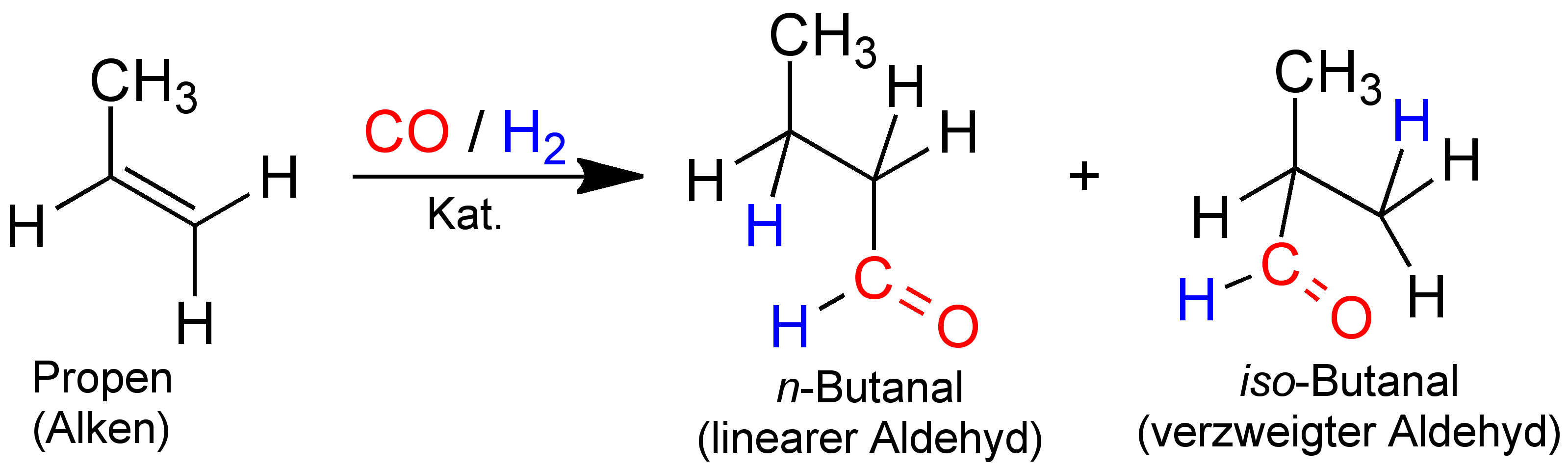 Propene Hydroformylation